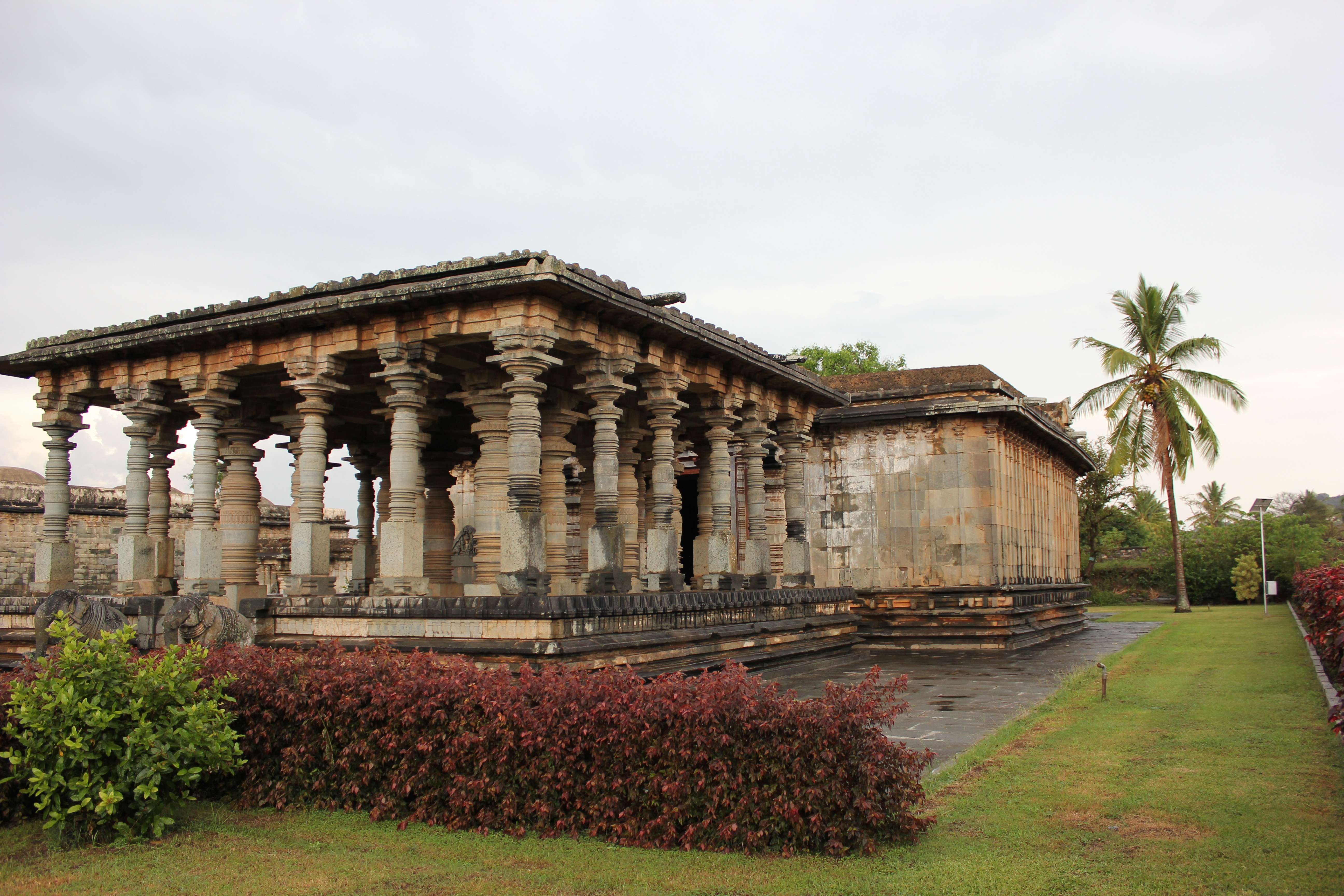 This photograph was taken by me at the Basadi (also spelt Basti, another name for a Jain temple) complex in Halebidu, Hassan district, Karnataka state, India.It is located close to the famous Hoysaleshwara temple. All the three Basadi in the complex are dated to the 12th century and were built by the kings of the Hoysala empire.